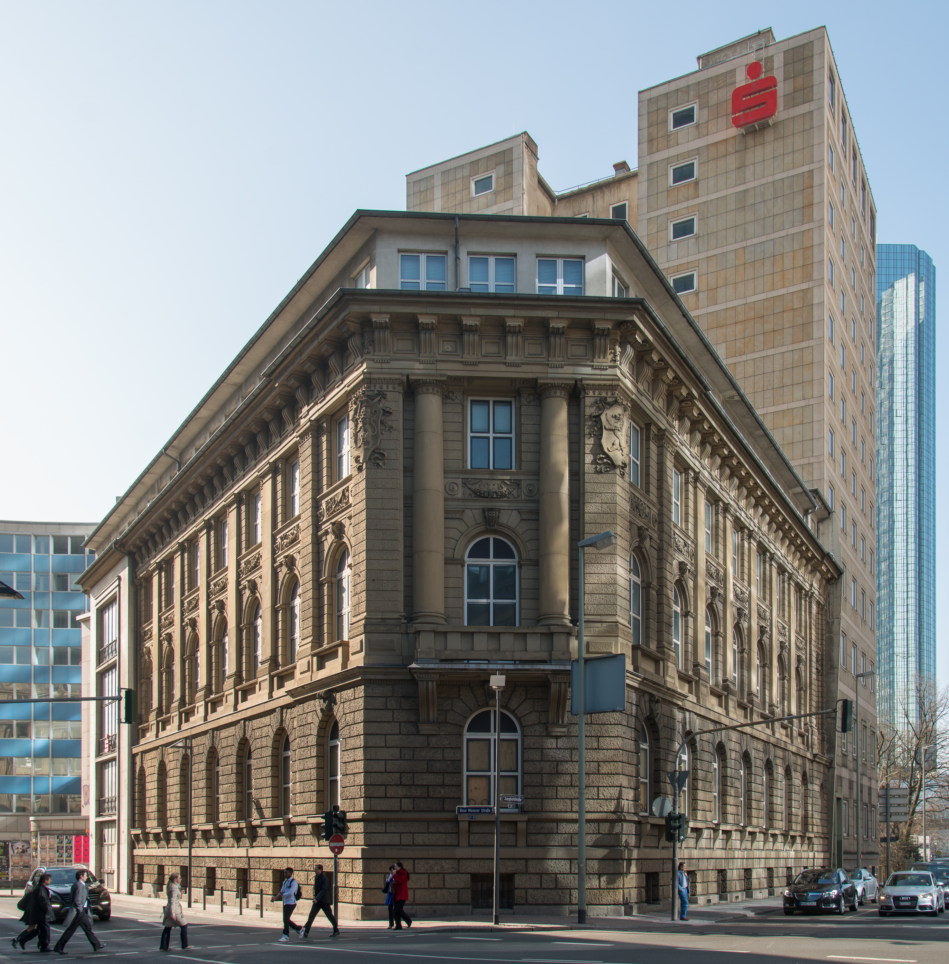 Frankfurt am Main, Neue Mainzer Straße 59. Cultural monument of the city.